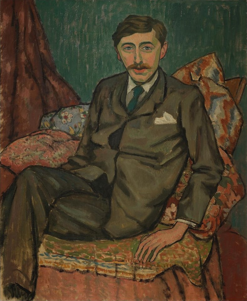 Portrait of E.M. Forster by Roger Fry, 1911, 73 x 60 cm. (28 1/4 x 23 5/8 in.)